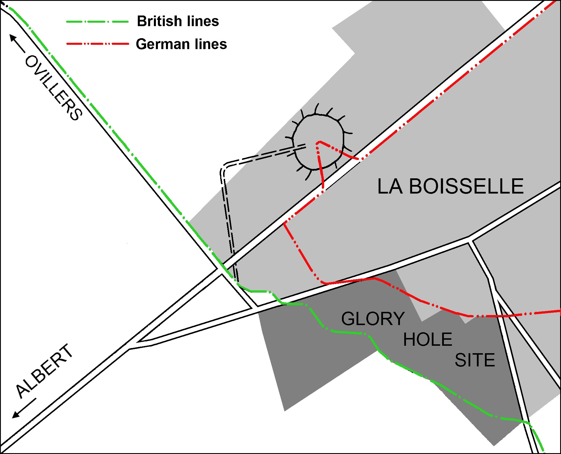 Plan of the Y Sap mine at La Boisselle, fired by the British at the start of the Battle of the Somme 1916